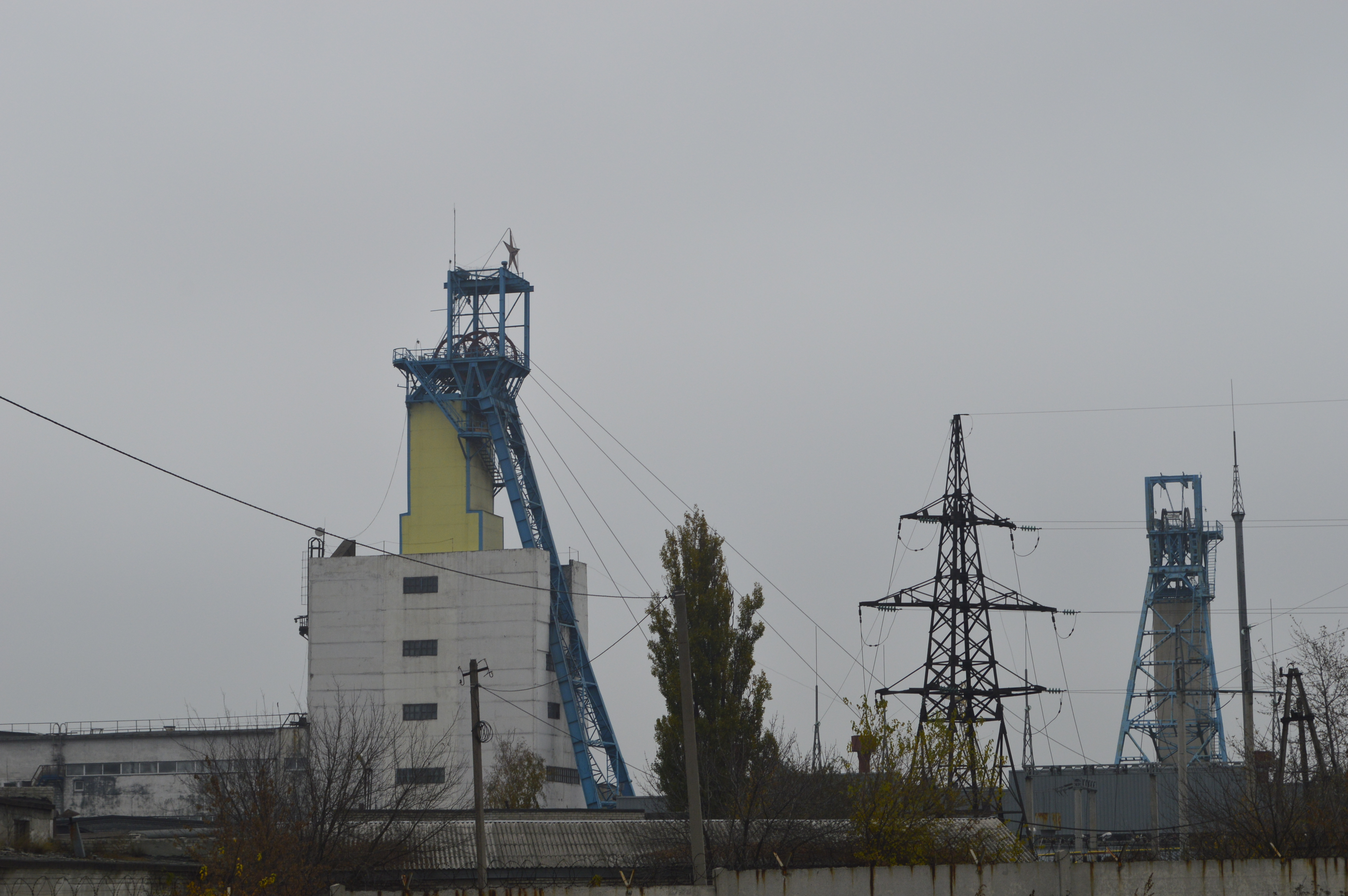 Steel headframe in Pershotravnevsk